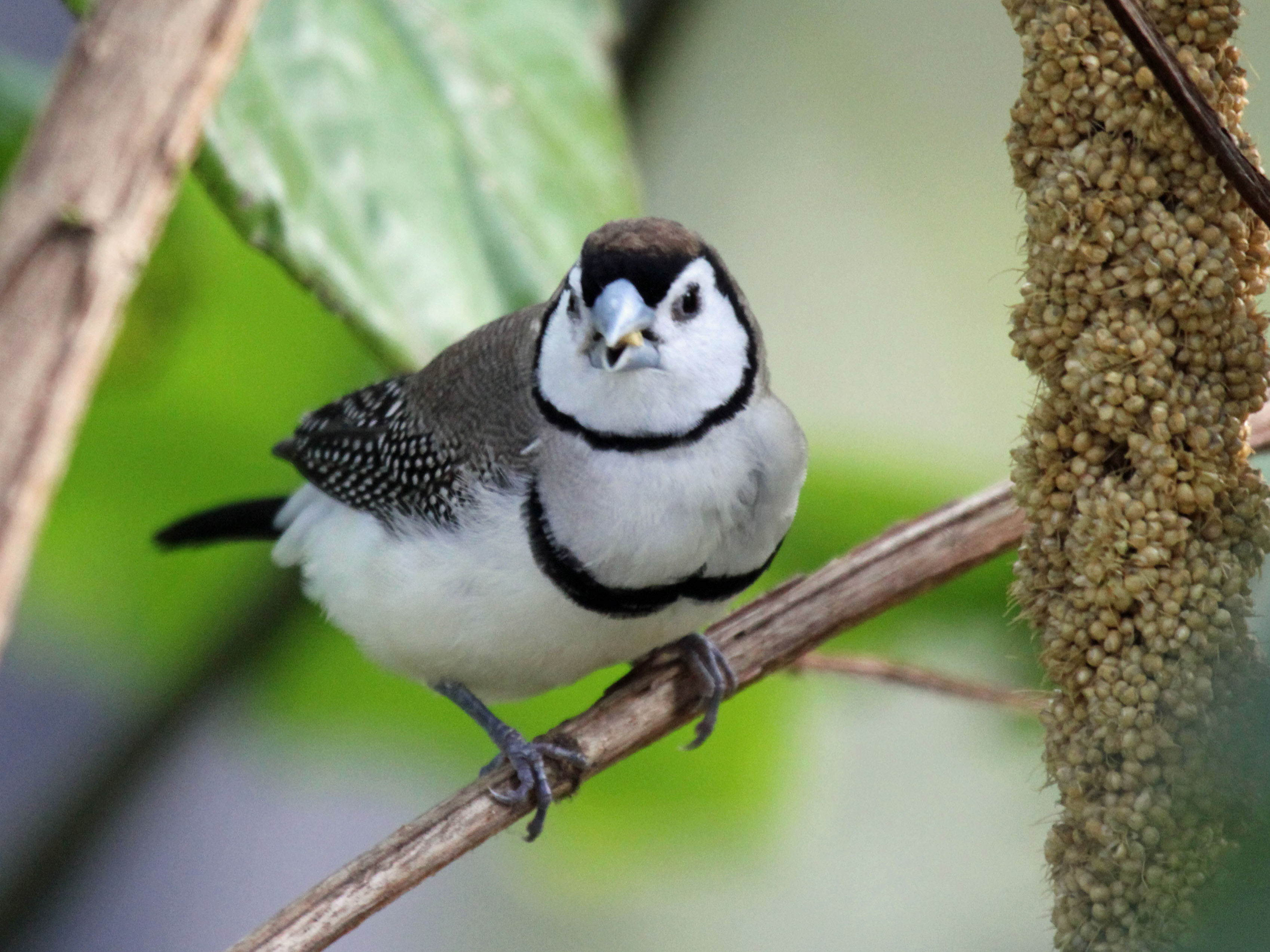 Double-barred Finch (Taeniopygia bichenovii). Also know as Owl Finch. Photographed at an aviary in Butterfly World of Florida.